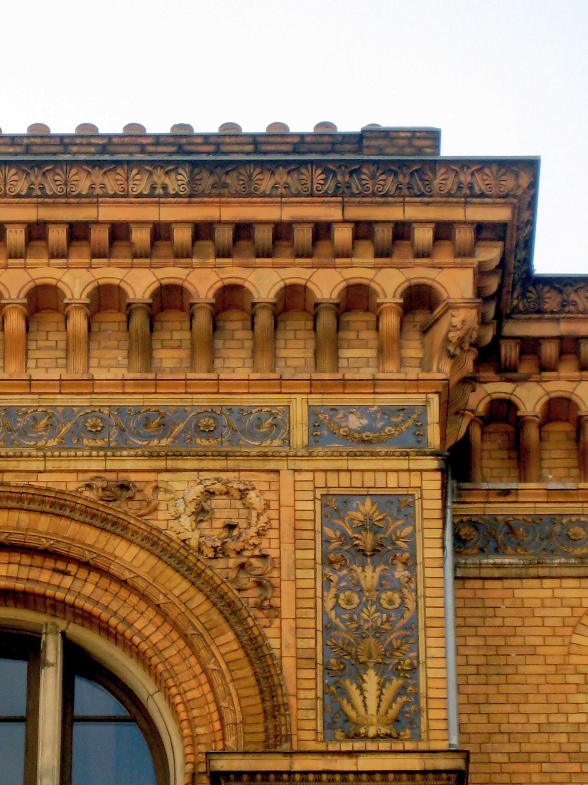 Detail of the facade at Clara-Grundwald-Schule, Berlin-Kreuzberg, formerly Askanisches Gymnasium